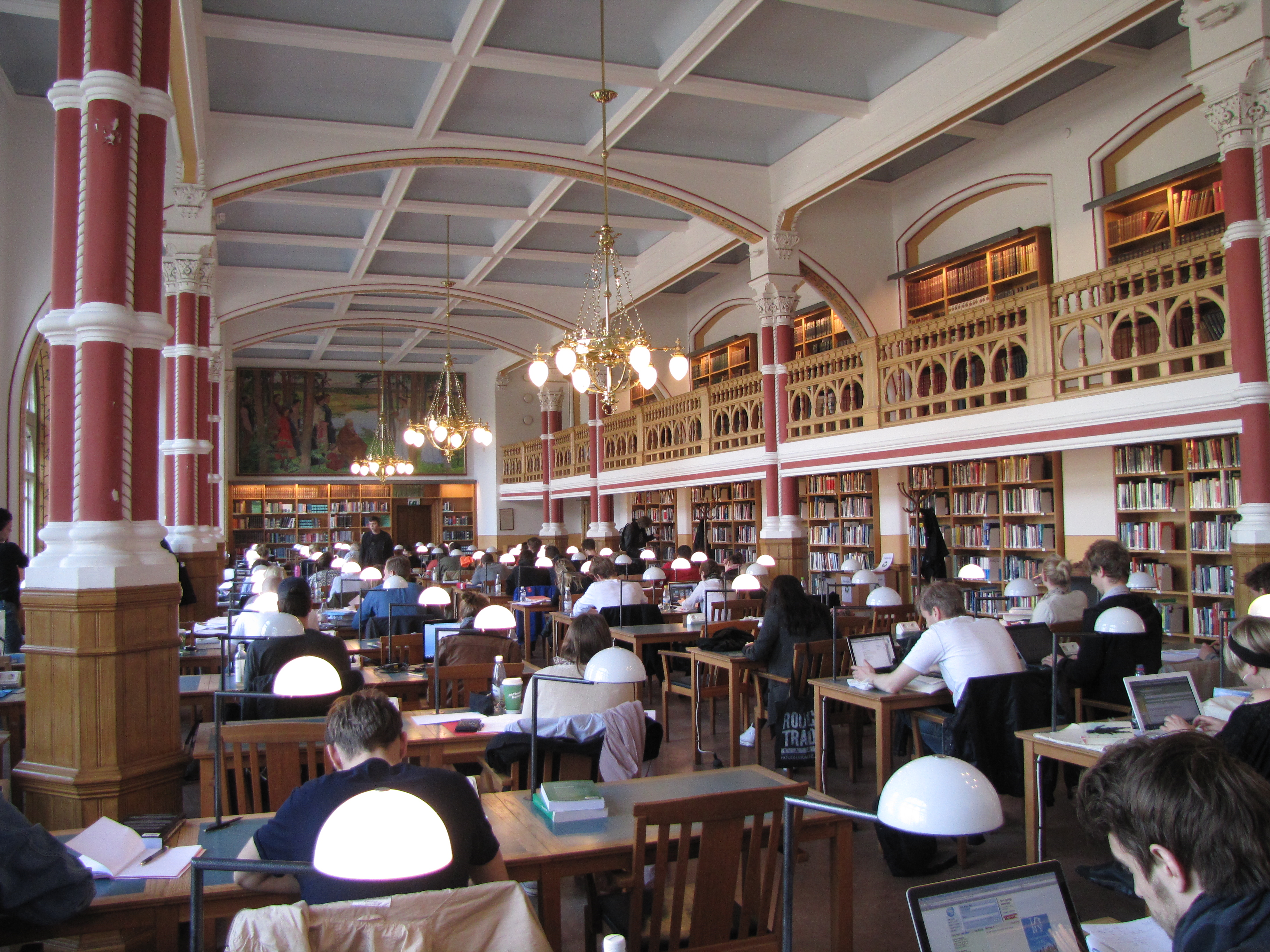 The former town library of Göteborg, built 1900, now one of the libraries of the University, called "Kurs- och tidningsbiblioteket", which means the course book and newspaper library. The major reading room with windows towards the garden and a painting by Carl Wilhelmson at the far end is showed.